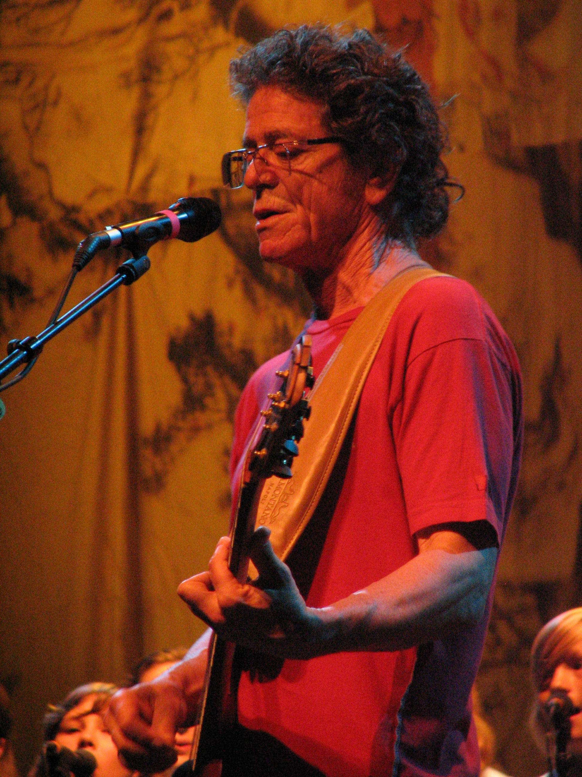 Lou Reed in Málaga, Spain, July 21, 2008